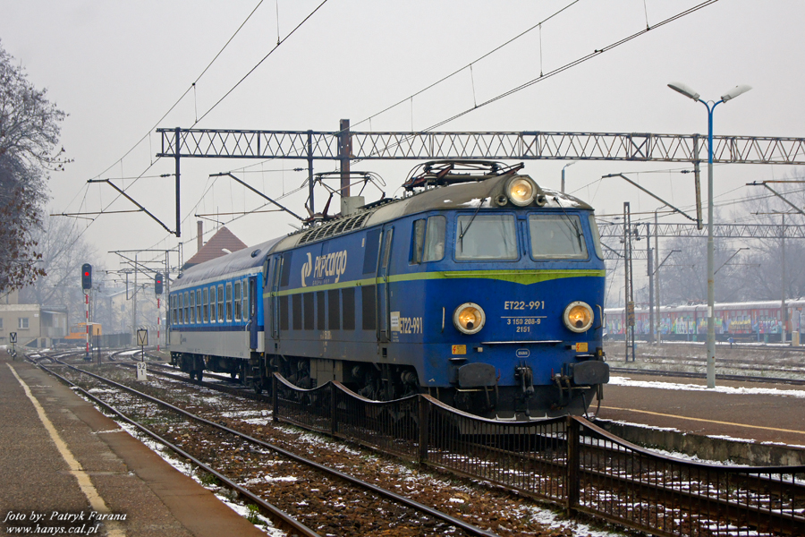 ET22-991 pulling one coach